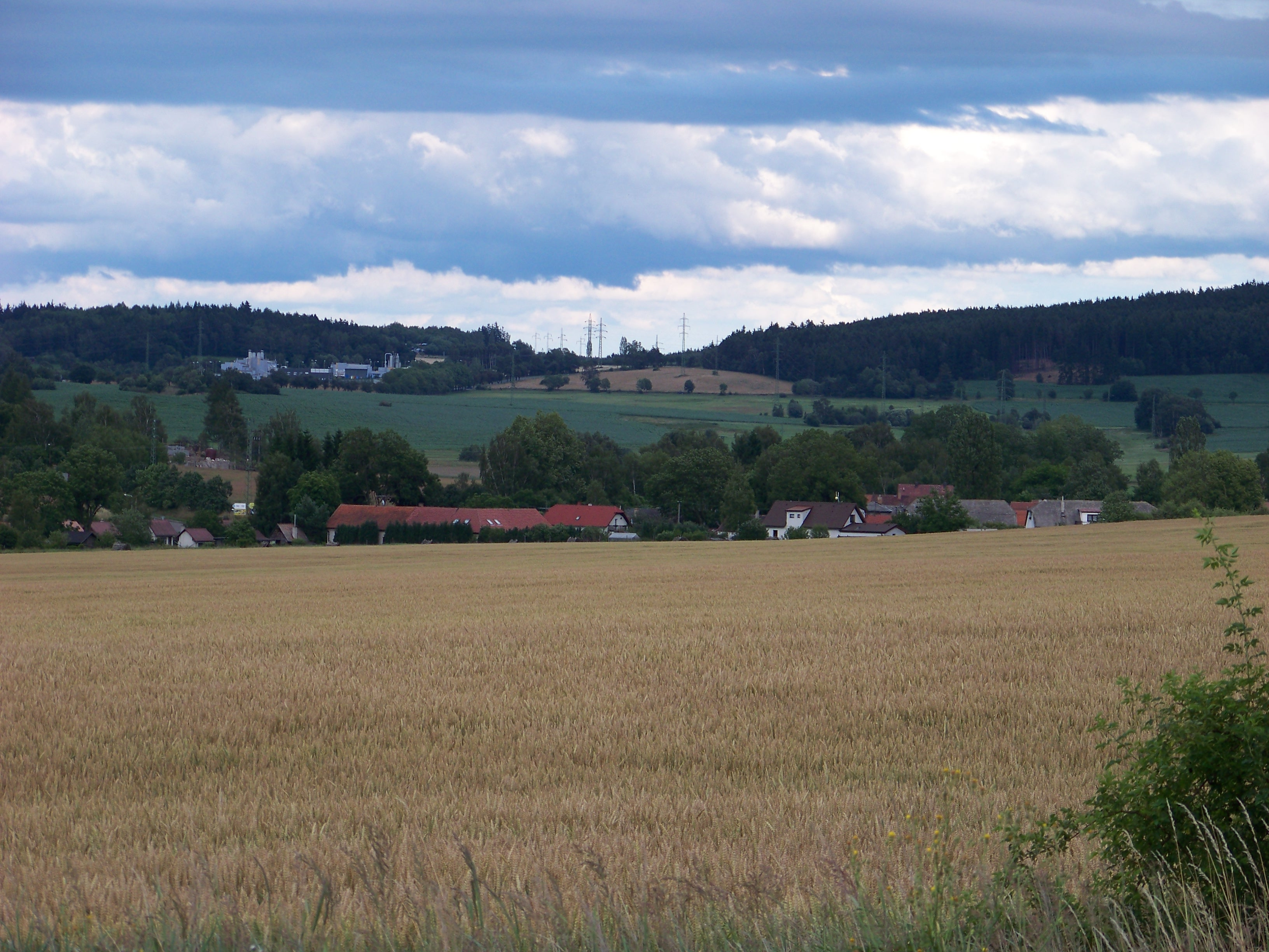 Příbram-Brod, Příbram District, Central Bohemian Region, the Czech Republic. - OpenStreetMap(Info)